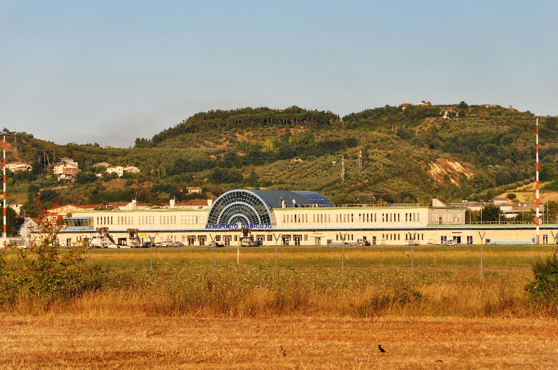 Pescara Airport 2013